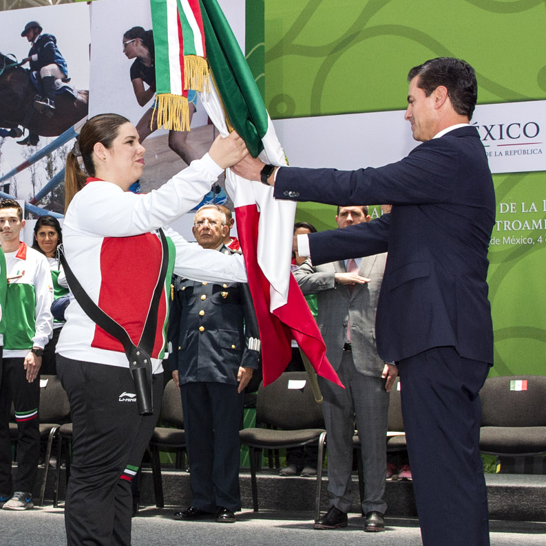 Alejandra Zavala, Mexican standard-bearer for the 2018 Central American and Caribbean Games.